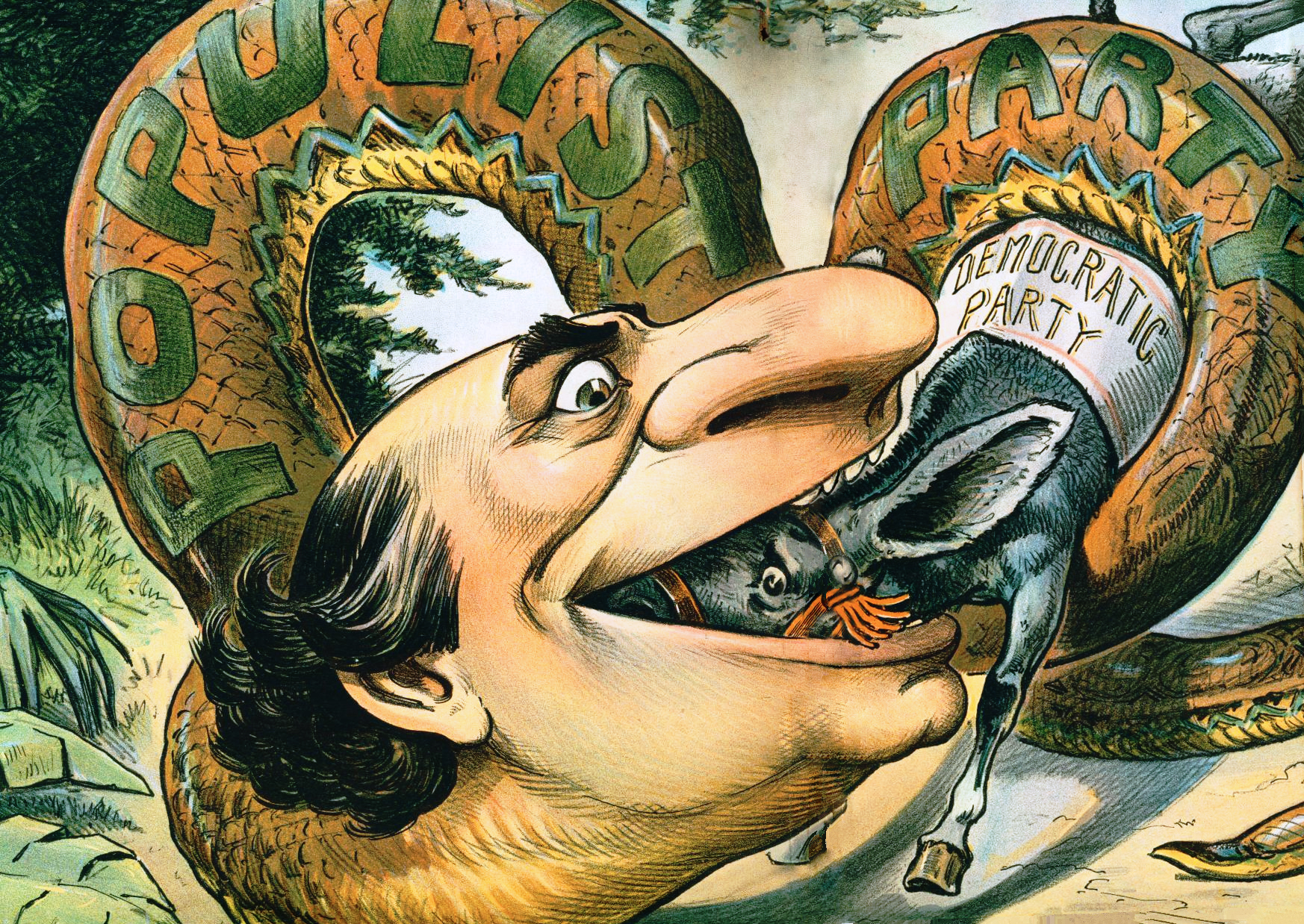 1896 Judge cartoon shows William Jennings Bryan/Populism as a snake swallowing up the mule representing the Democratic party.